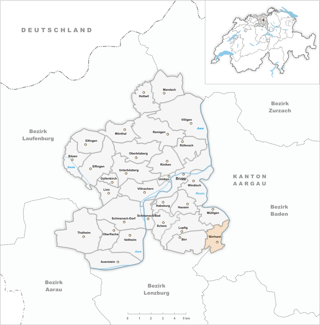 Municipality Birrhard